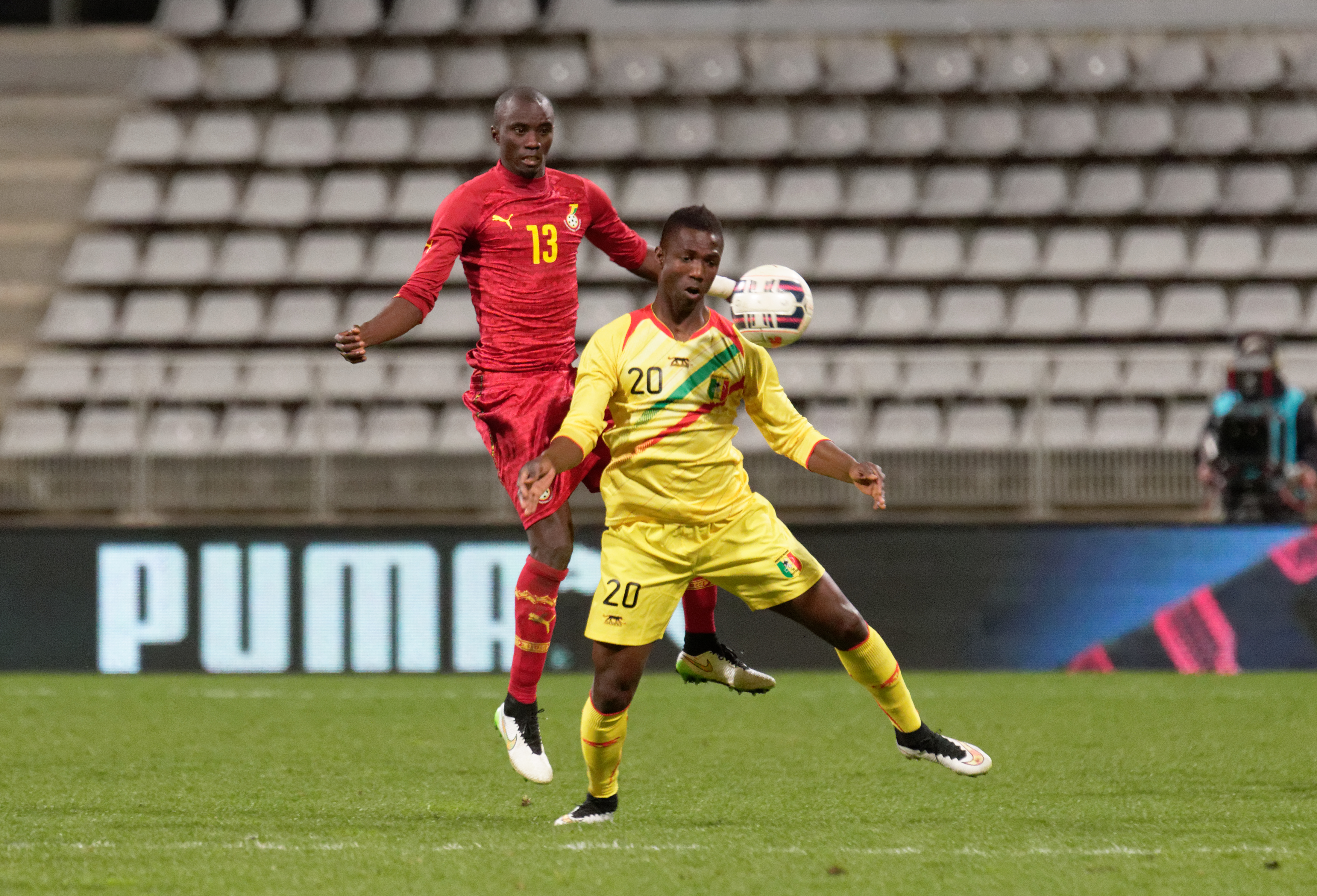 Mali vs Ghana, exhibition game at Paris, 31st March 2015.